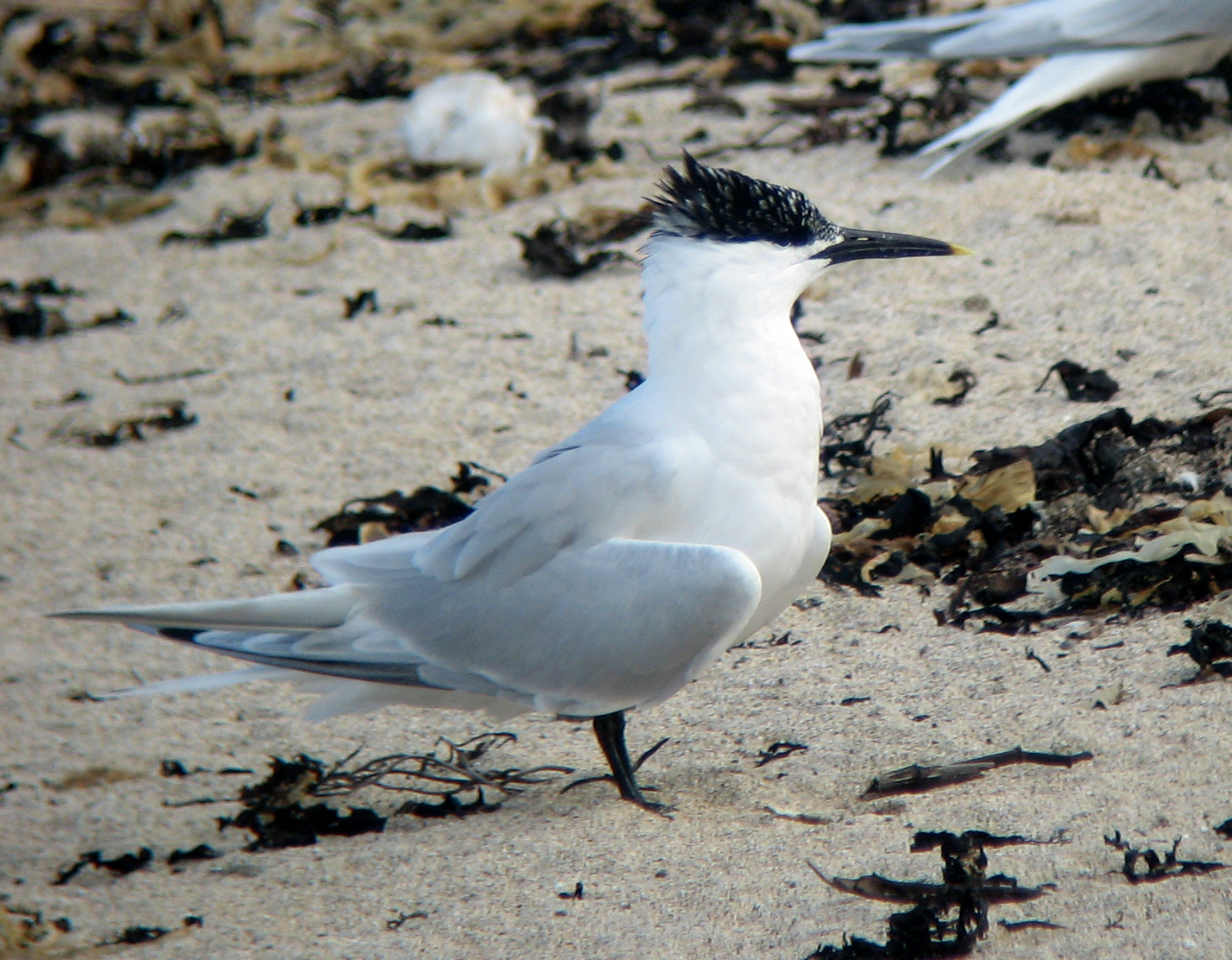 Sterna sandvicensis, Inner Farne, Farne Islands, Northumberland